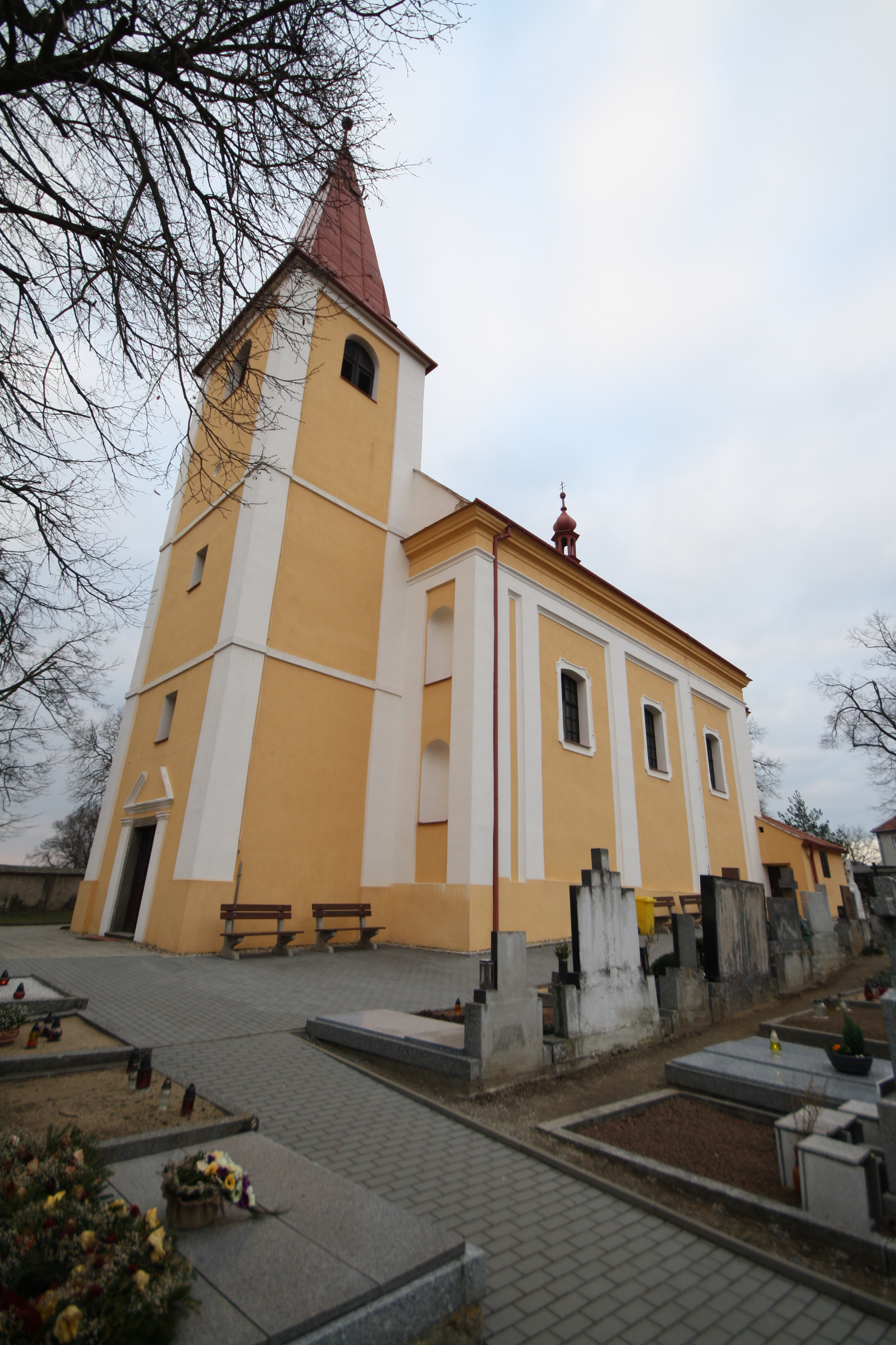 Overview of Church of Saint Bartholomew in Koněšín, Třebíč District.